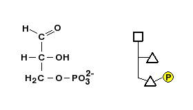 Glyceraldehyde